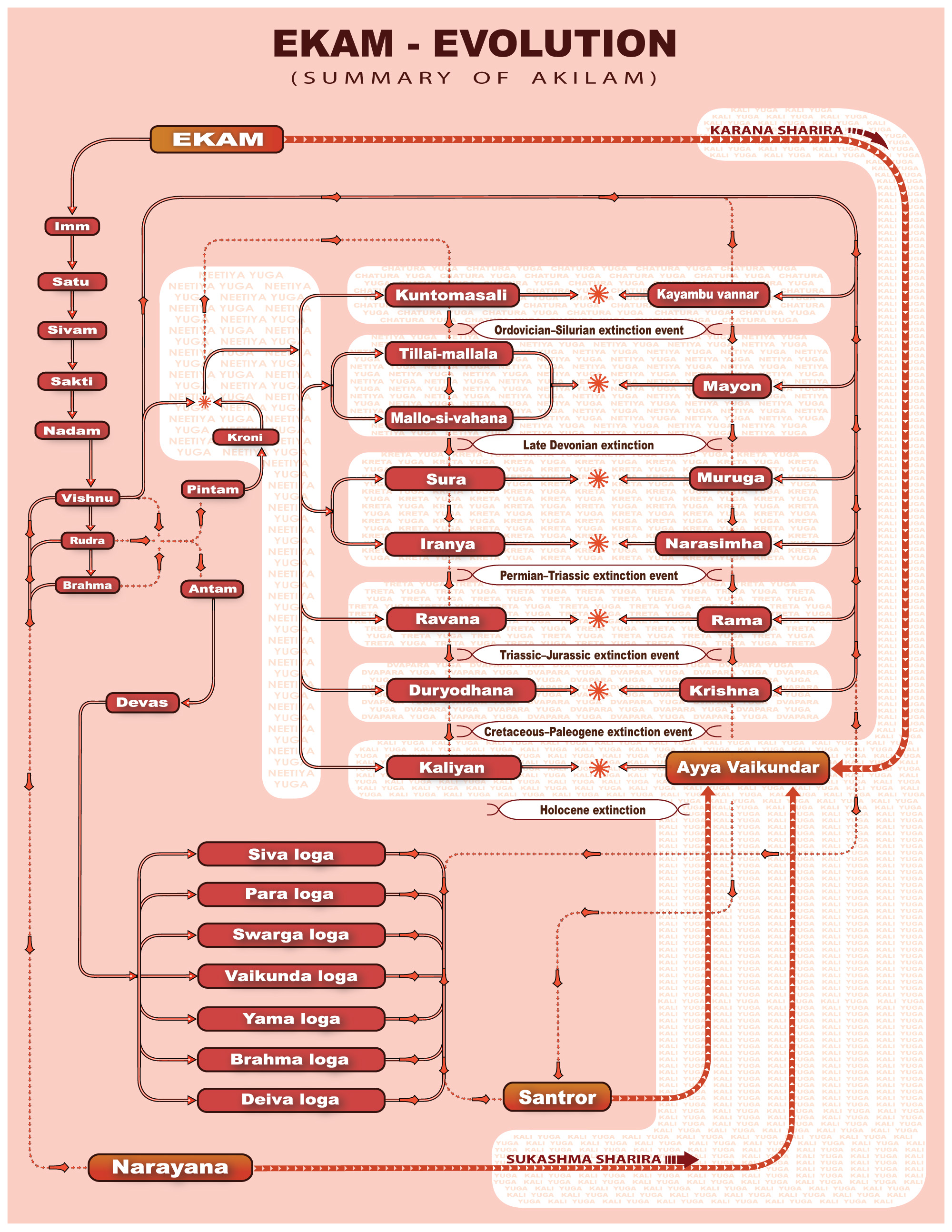 The summary of Akilathirattu Ammanai, the holy text of Ayyavazhi.